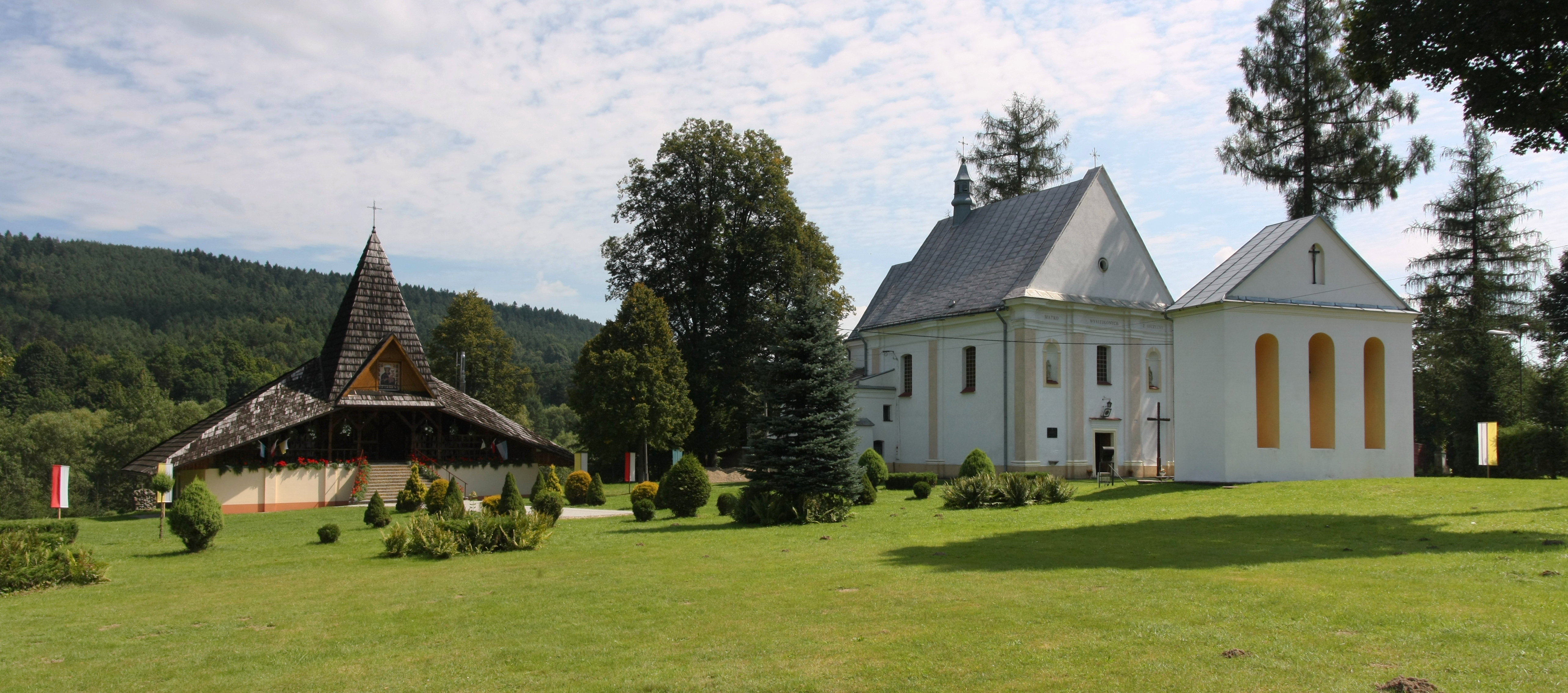 Sanctuary in Ustrzyki Dolne